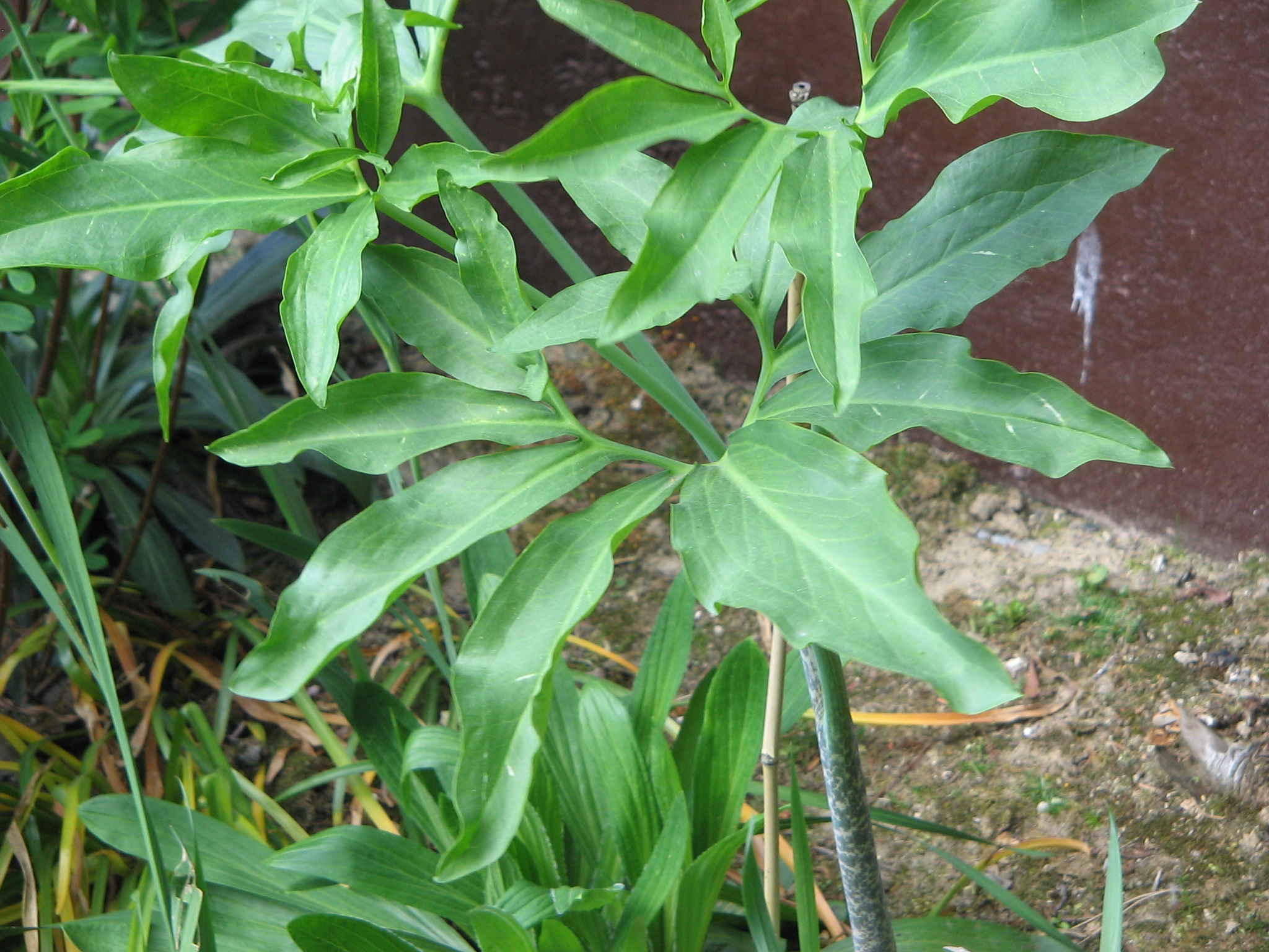 Dracunculus vulgaris leaves